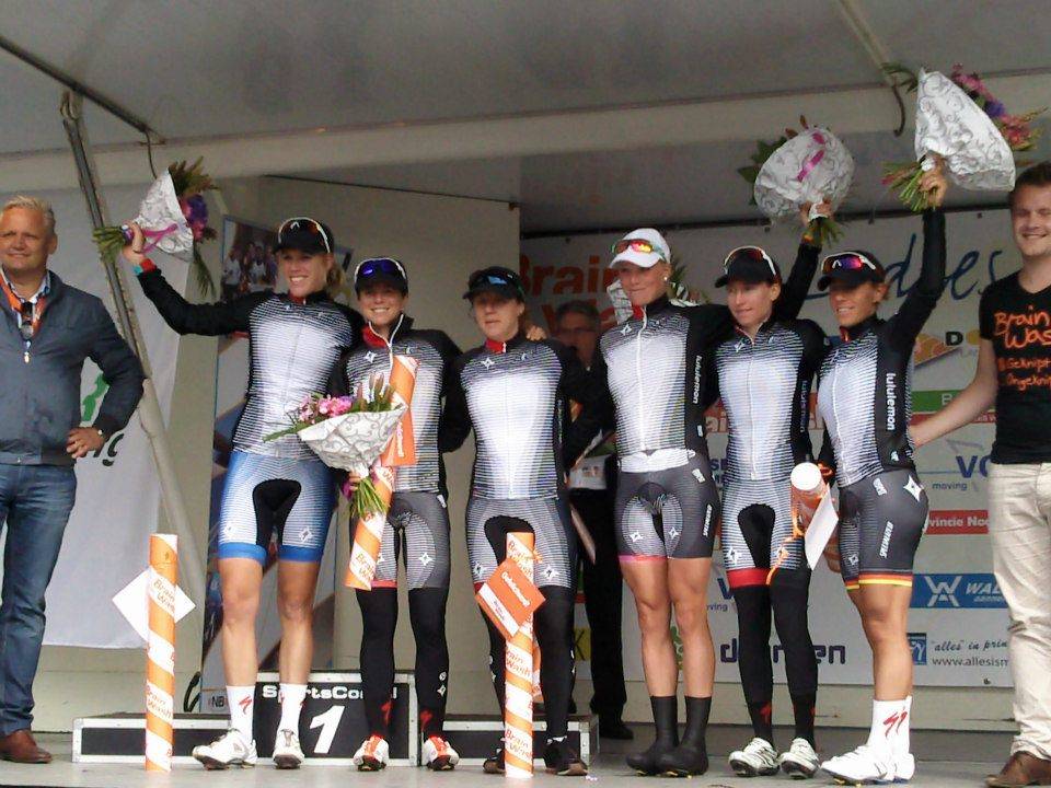 Podium, stage 2 (Team Time Trial), Brainwash Ladies Tour. Team Specialized-Lululemon. With (from left to right): Ellen van Dijk, Evelyn Stevens, Ina Yoko Teutenberg, Charlotte Becker, Amber Neben and Trixi Worrack